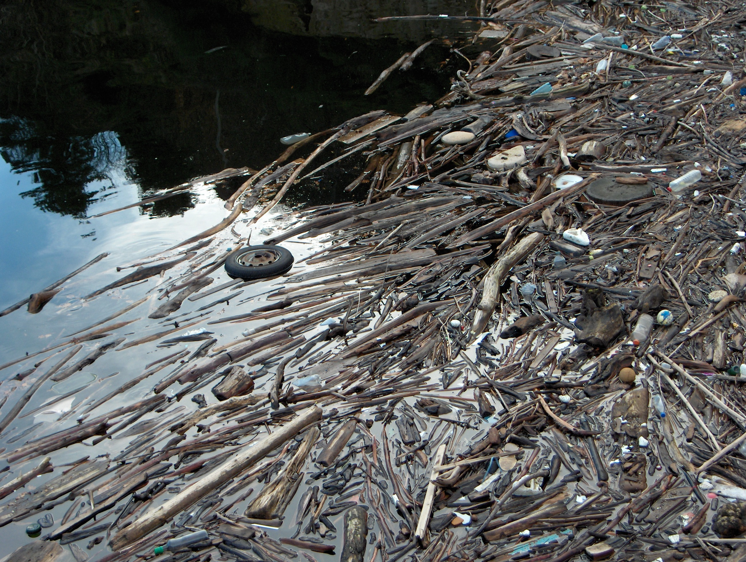 Natural timber floating and water pollution in the Loire river, accumulating at the Grangent dam (France).